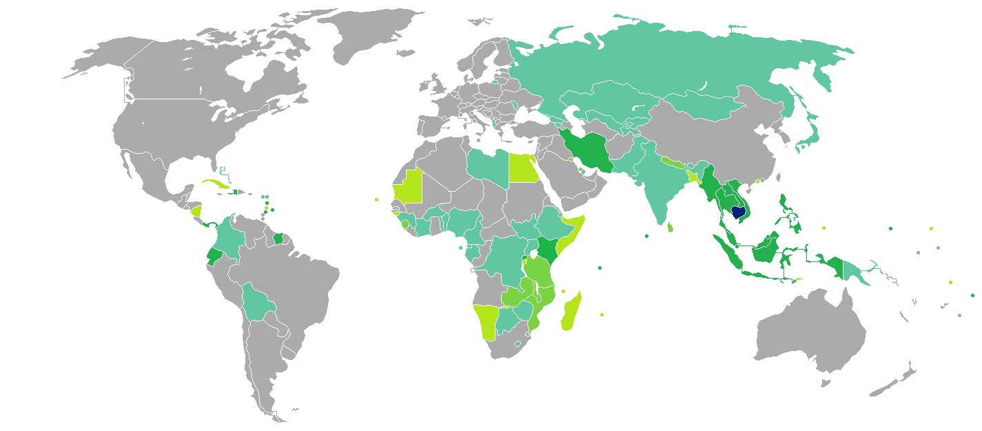 Visa requirements for Cambodia citizens Cambodia Visa free access Visa on arrival eVisa Visa available both on arrival or online Visa required